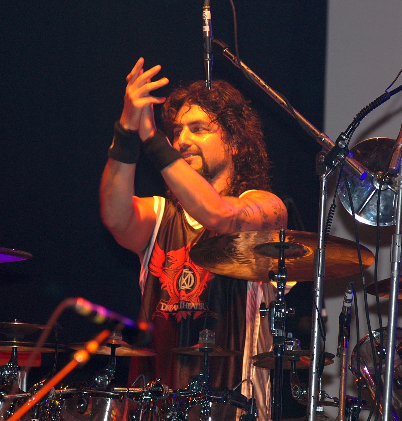 Michael Stephen "Mike" Portnoy (born April 20, 1967) is an American drummer primarily known for his work with the progressive metal band Dream Theater.